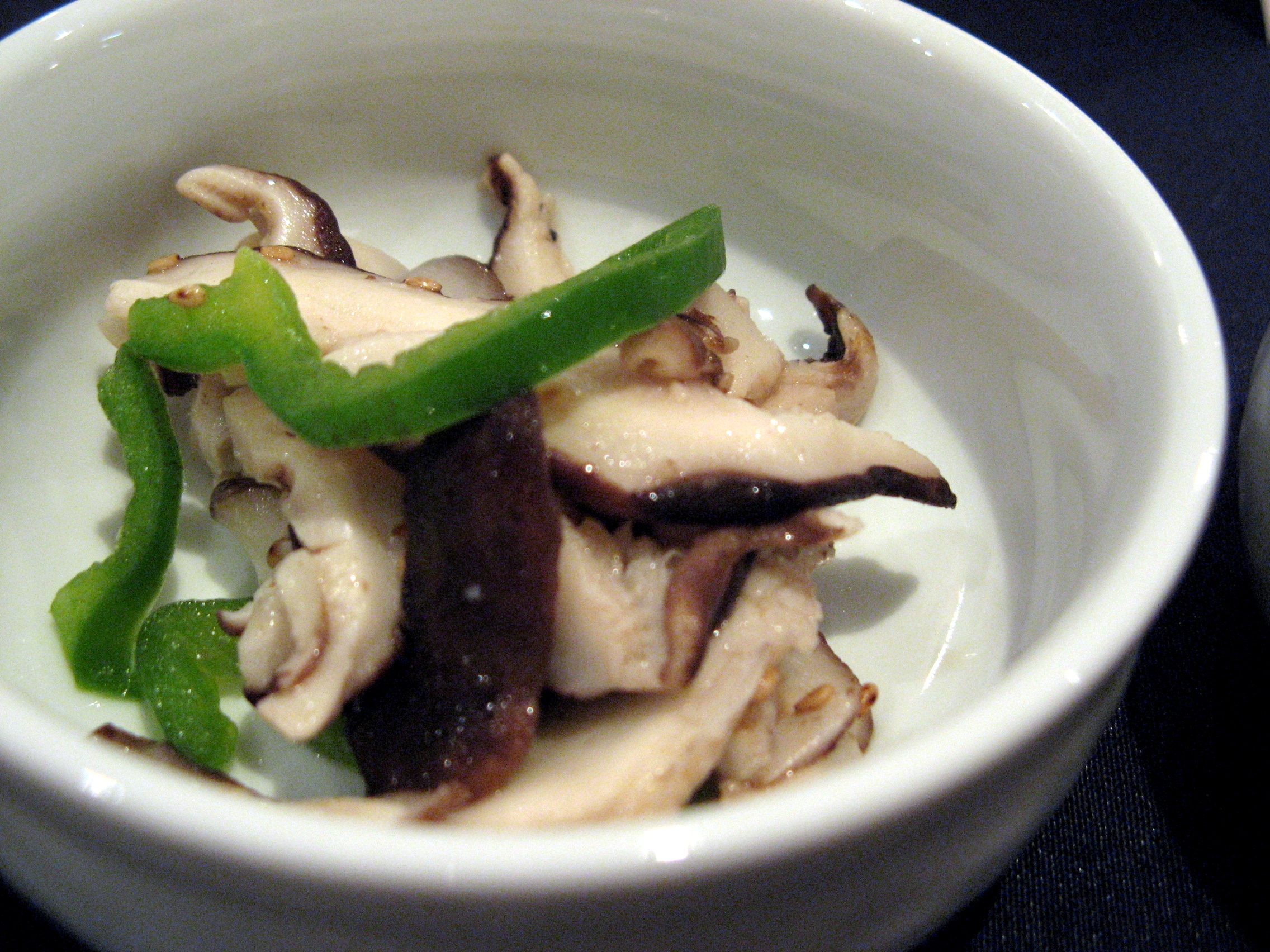 Pyogo namul, a Korean dish made with pyogo.